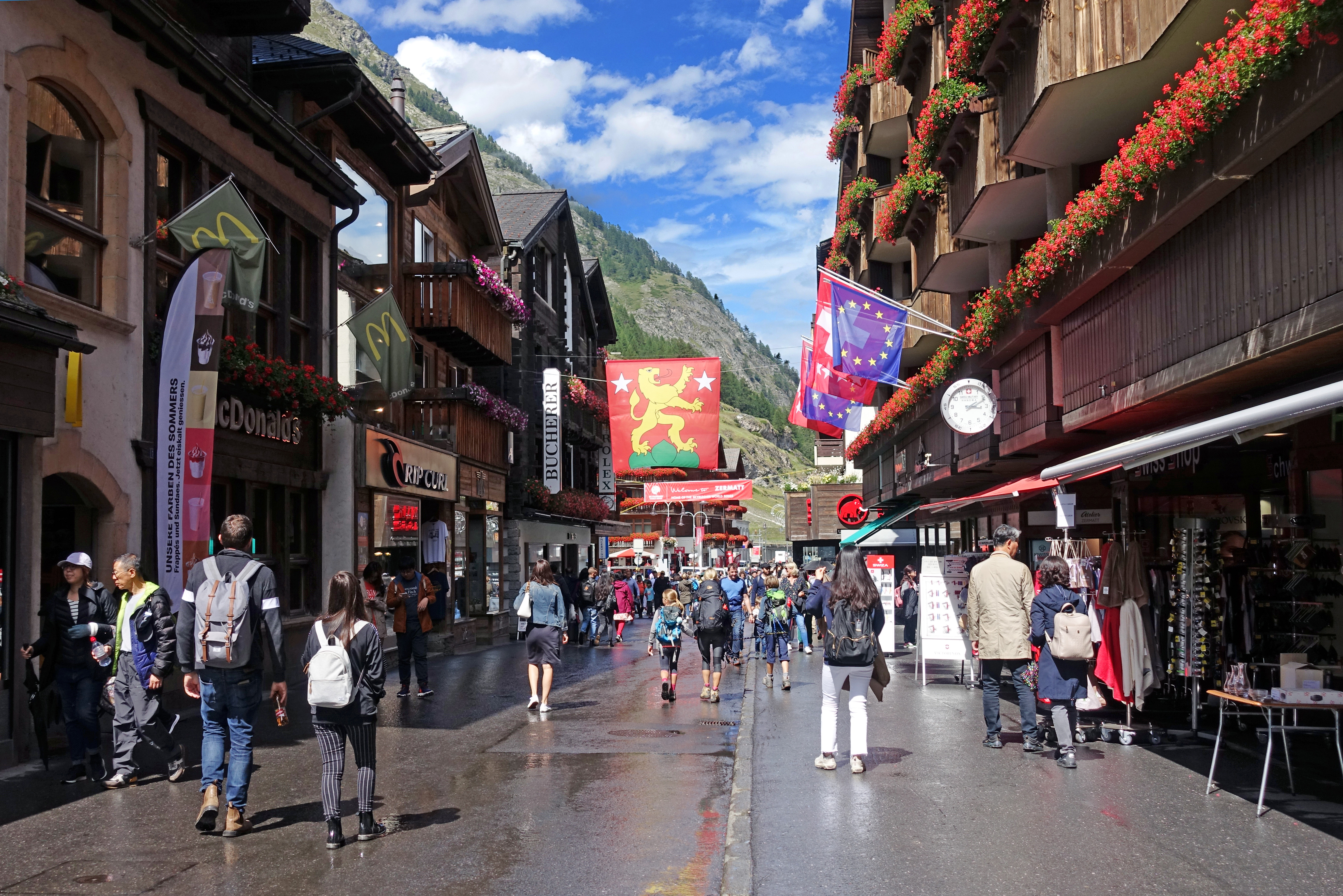 Zermatt, Switzerland.